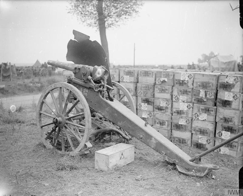 The Battle of the Somme, July-november 1916 A captured German 5.7 cm Maxim-Nordenfelt gun. Meaulte-Albert Road.